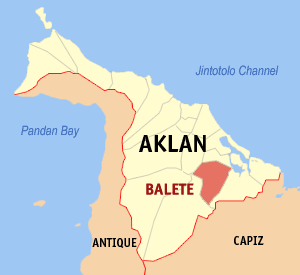 Map of Aklan showing the location of Balete